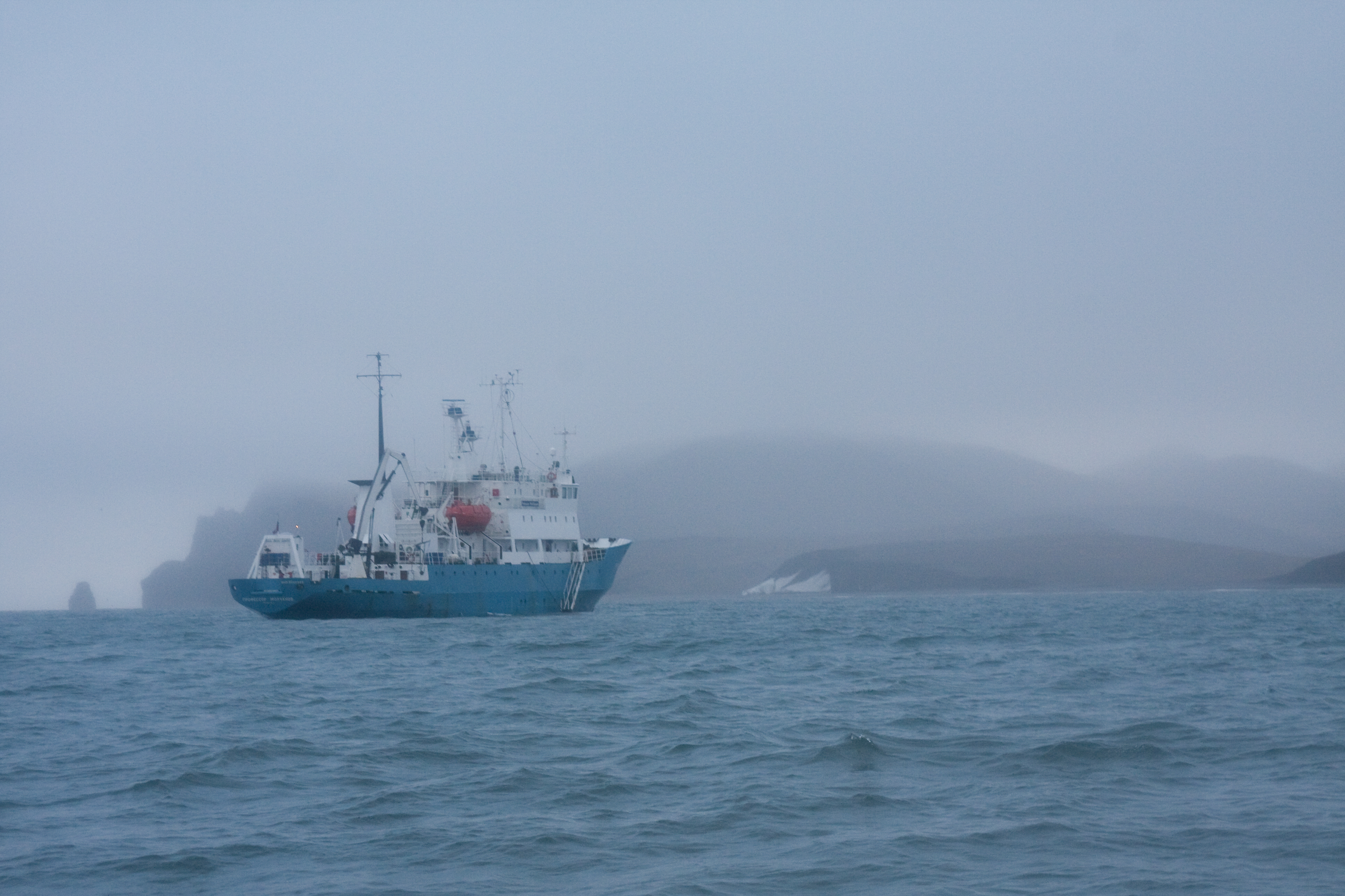 NarFU